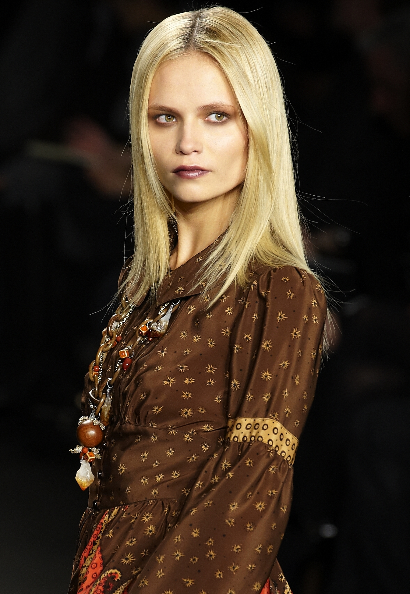 Natasha Poly walks the runway at the Anna Sui Fall/Winter 2010 show at New York Fashion Week, February 2010.